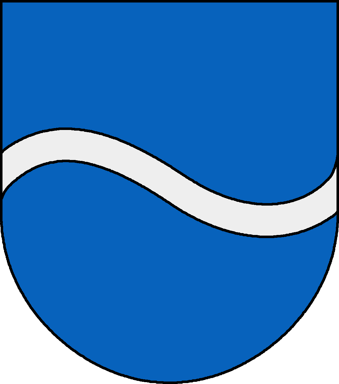 Coat of arms of the Amt (county) Föhr-Amrum in Schleswig-Holstein, Germany.